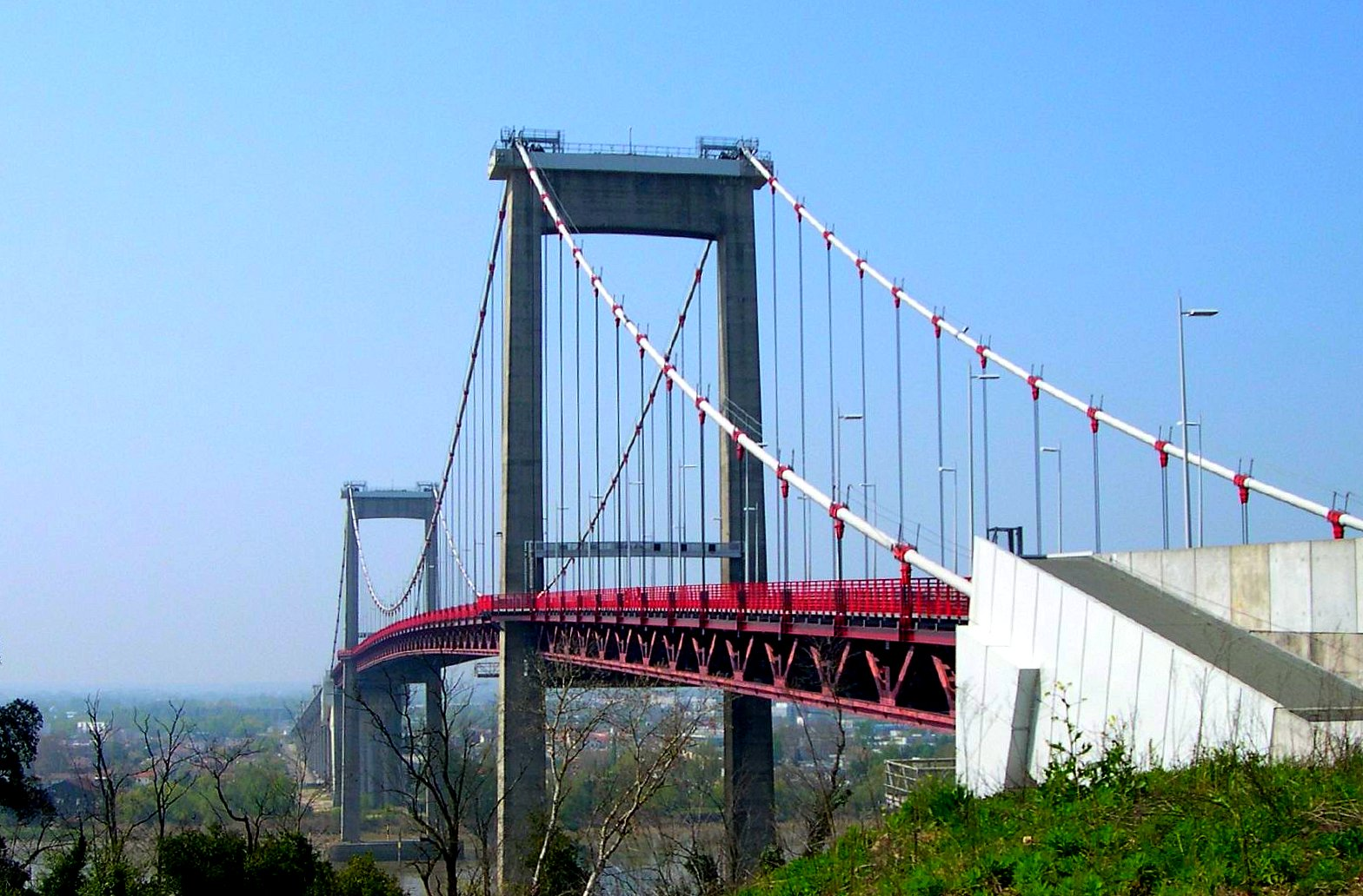 The Pont d'Aquitaine over the Garonne River at Bordeaux (Gironde)